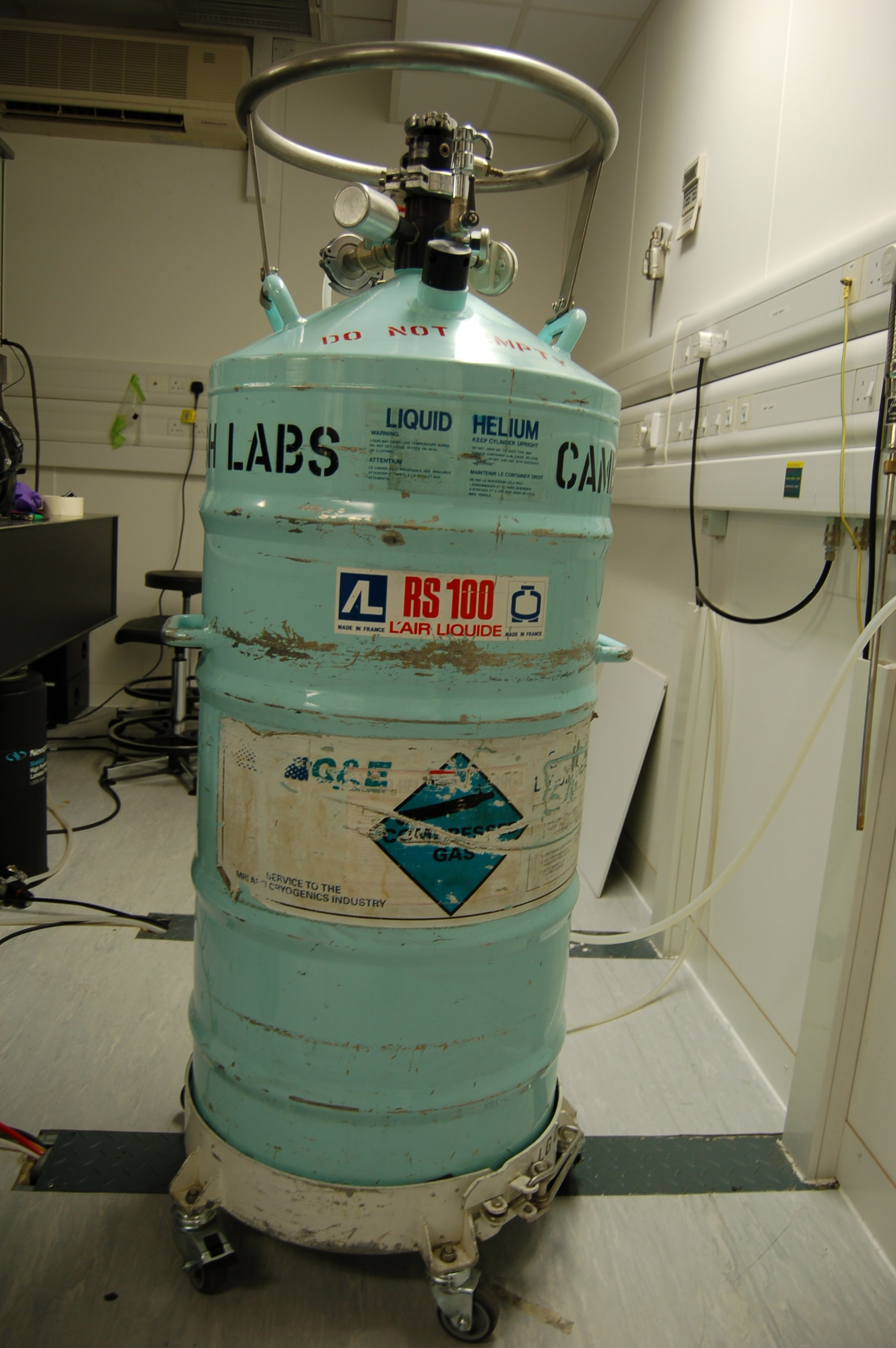 A dewar in which liquid helium is stored. Unknown